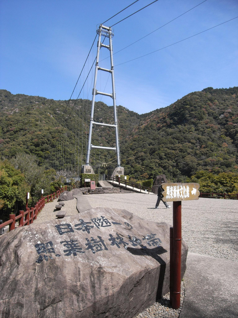 The Aya Teruha Suspension Bridge over the Zambezi River between